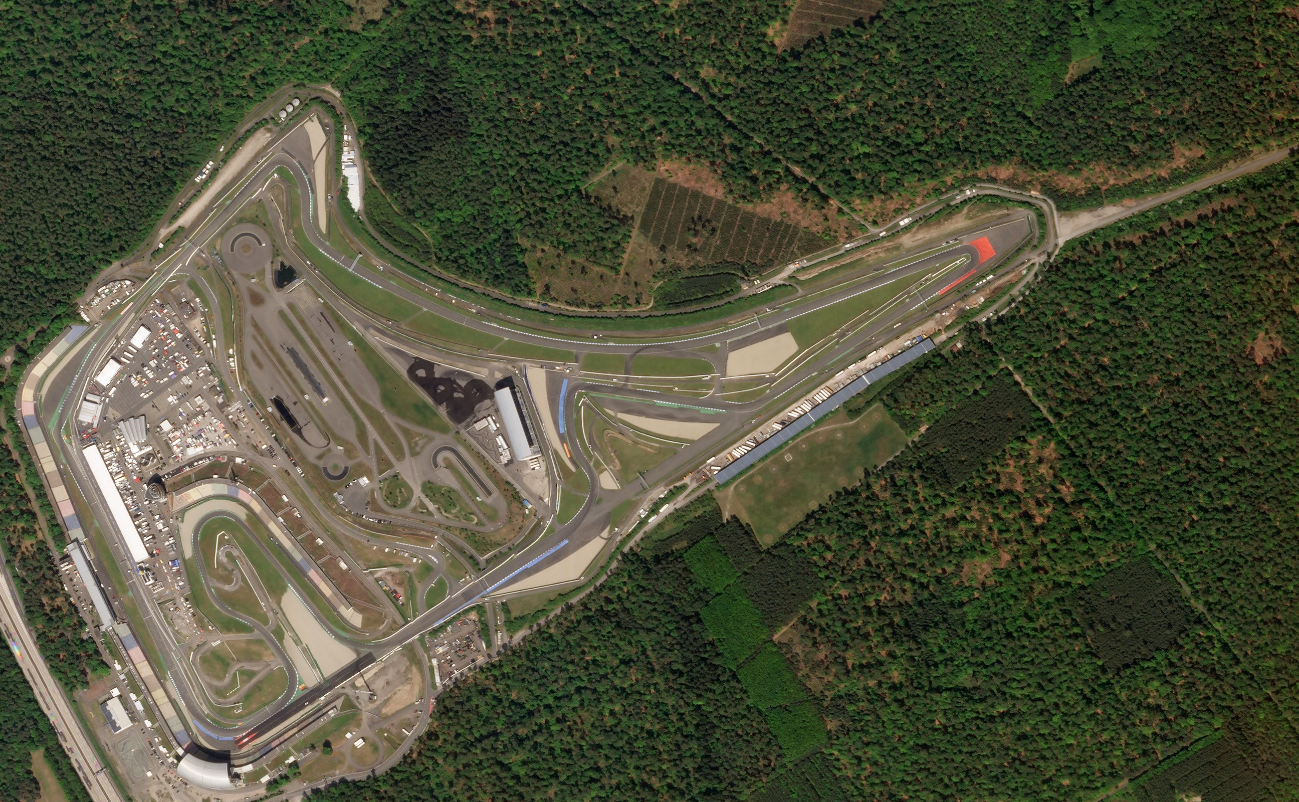 The Hockenheimring, a motor racing circuit situated in the Rhine valley near the town of Hockenheim in Baden-Württemberg, Germany and host to the German Grand Prix. Image taken on April 29, 2018, by a Planet Labs SkySat satellite.